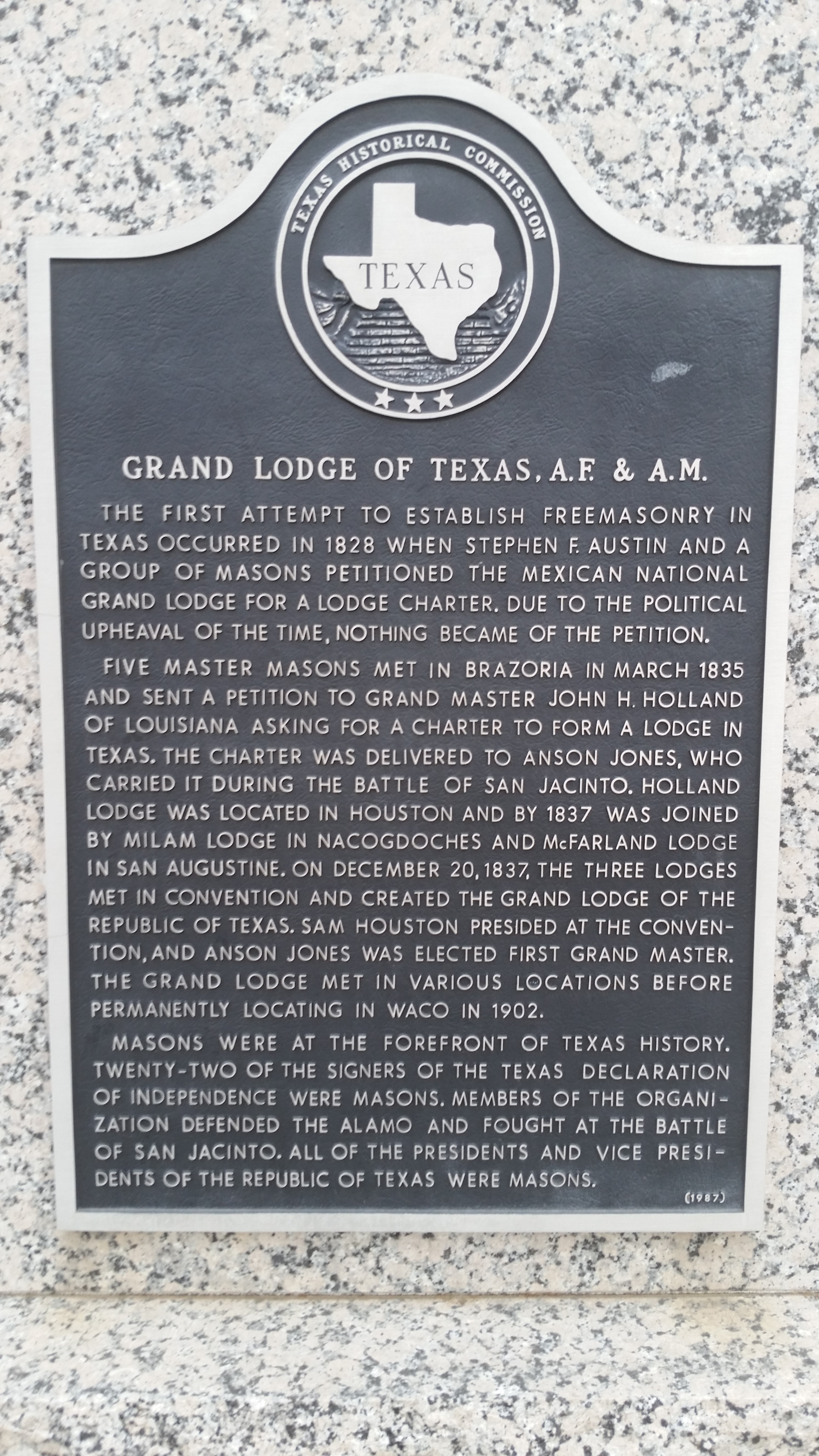 Texas historical marker for Masonic Lodge in Waco